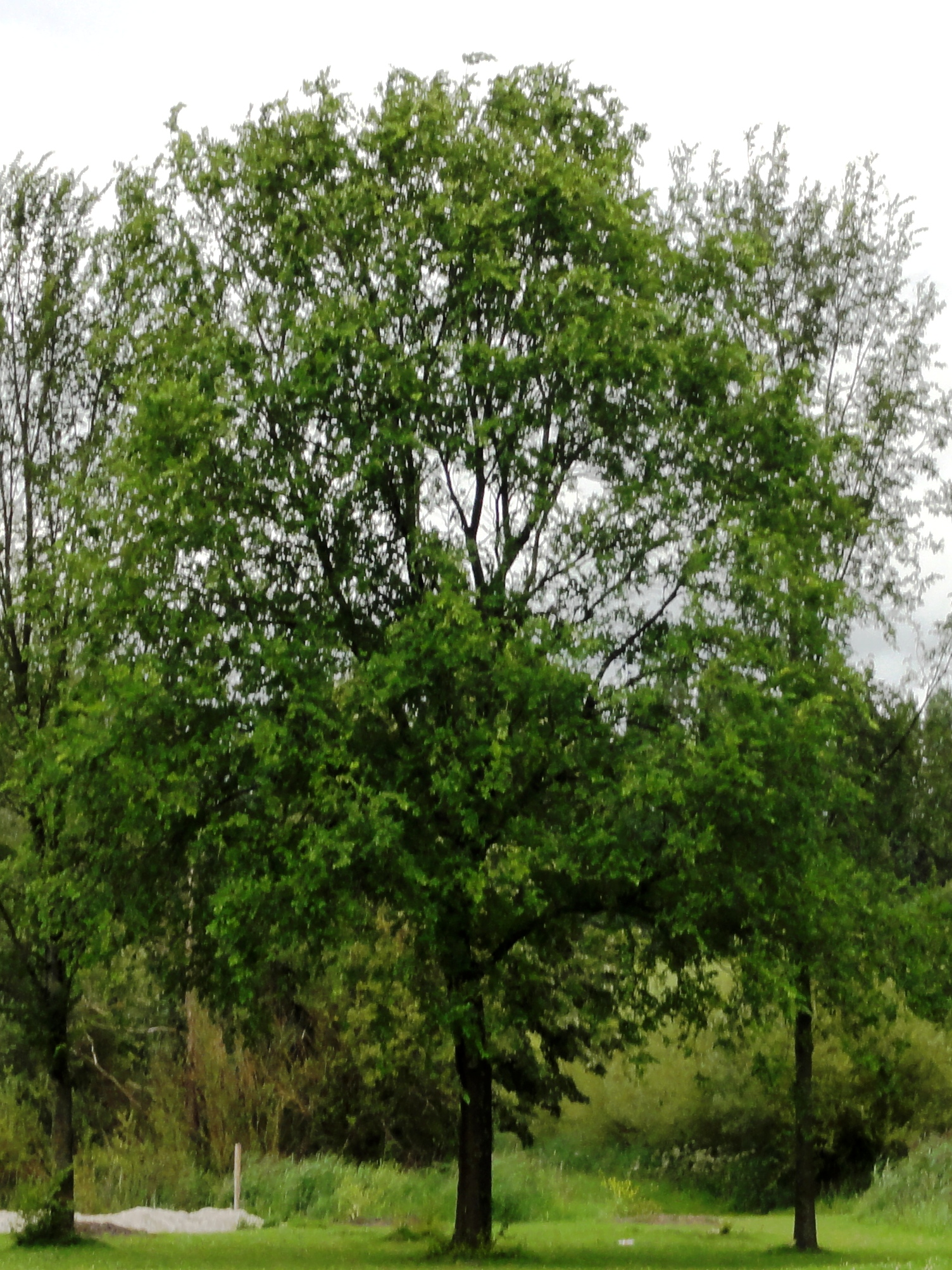 Photo of Ulmus 'Recerta', taken at Amerbos, Amsterdam.